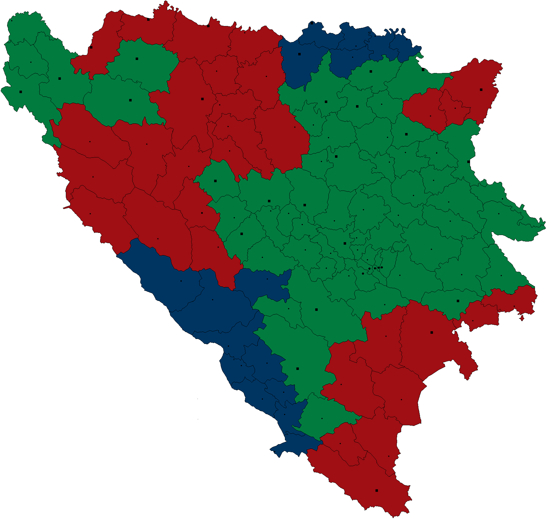 Map of the first Bosniak proposal on federalisation of Bosnia and Herzegovina, from 25 June 1991. Adil Zulfikarpašić's proposal included the possibility of attaching Mostar to the Croat canton.